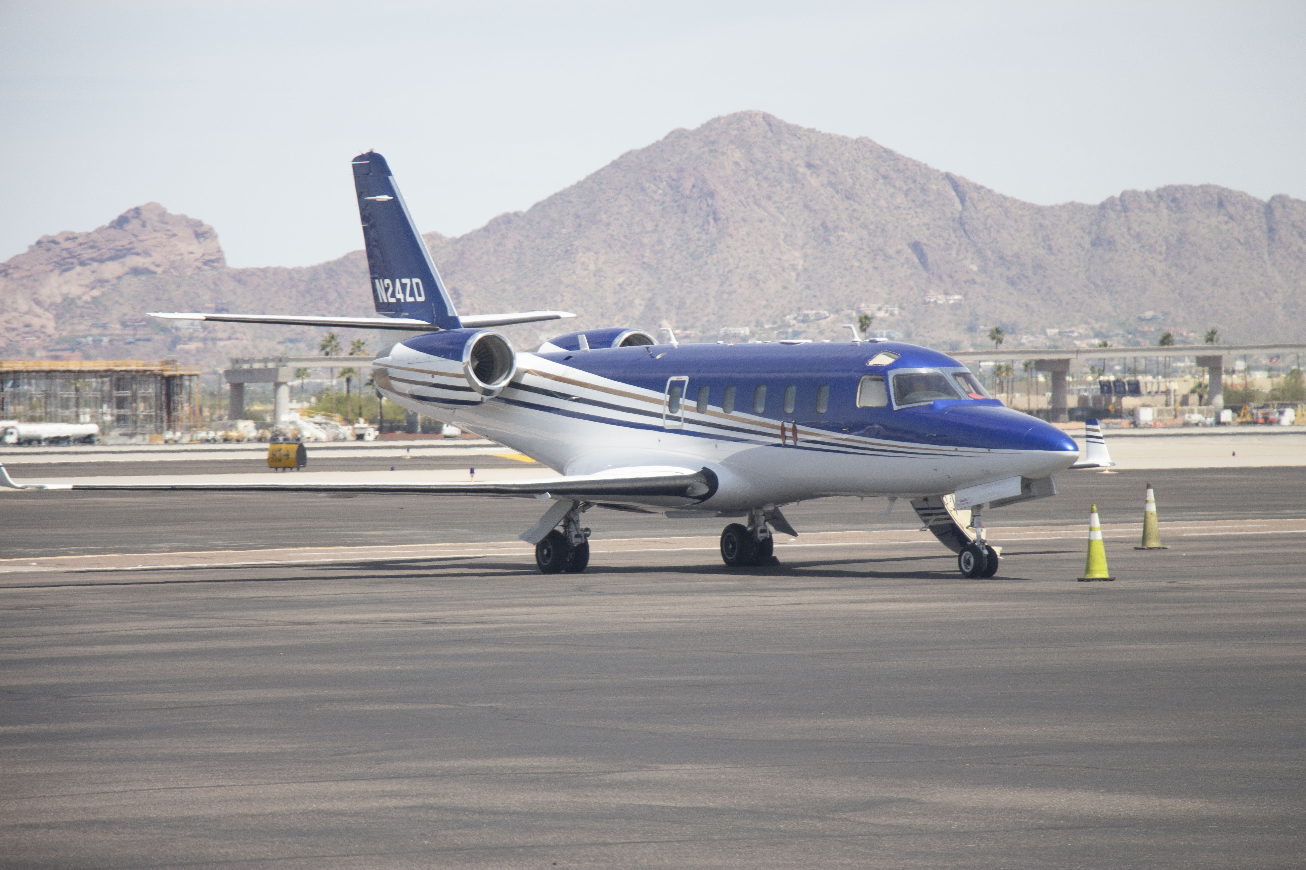 Gulfstream G100 N24ZD. Taken at Sky Harbor Airport in Phoenix on April 1st, 2019